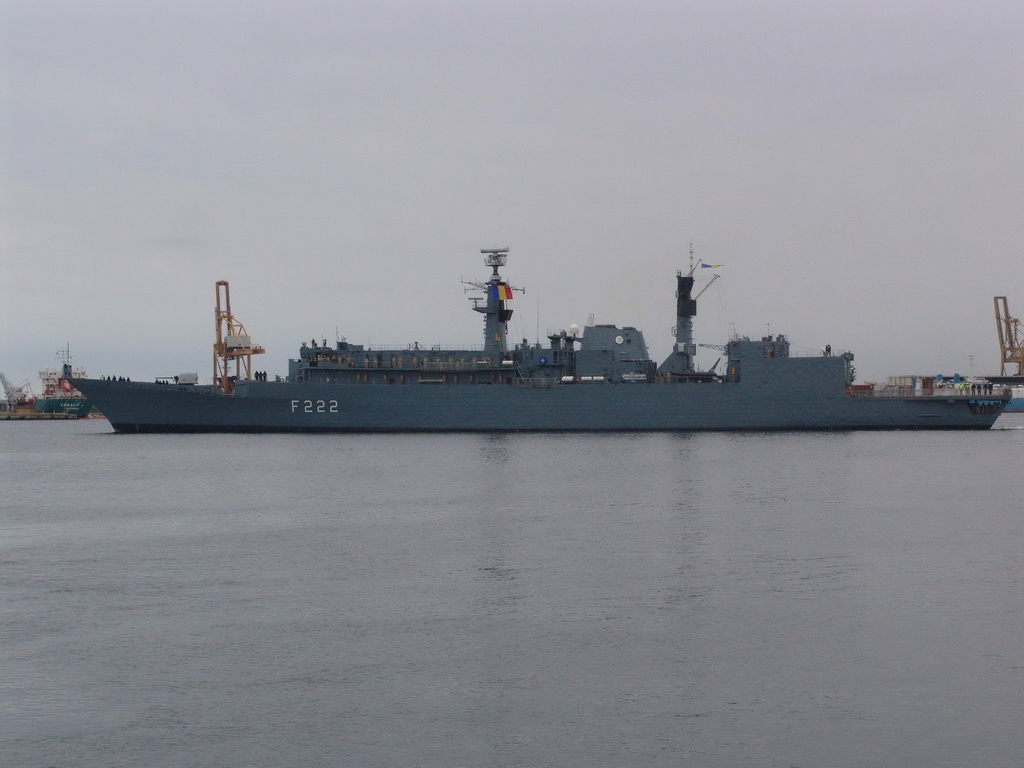 Regina Maria frigate of the Romanian Navy leaving Constanța harbour for the Active Endeavour operation.